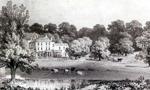 Ashbourne Hall. This image is one of a collection by the famous local antiquarian, Thomas Bateman, of Middleton by Youlgreave. (1821-1861). This image is cropped and colour balanced